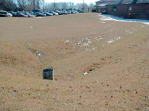 View of infiltration basin designed to treat polluted stormwater.